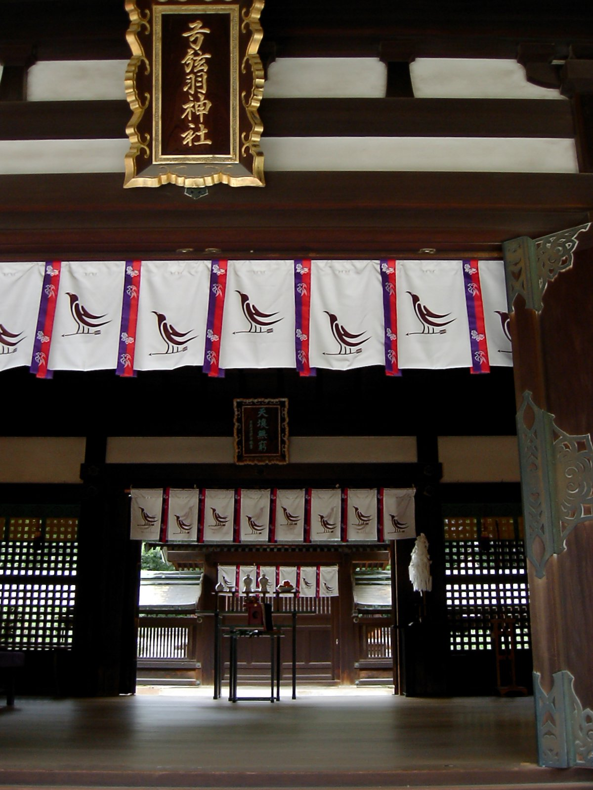 YUZURUHA Shinto shrine is located in Mikage, KOBE. The sysbol of 3-leg crow (raven) is a messenger of Shinto gods.